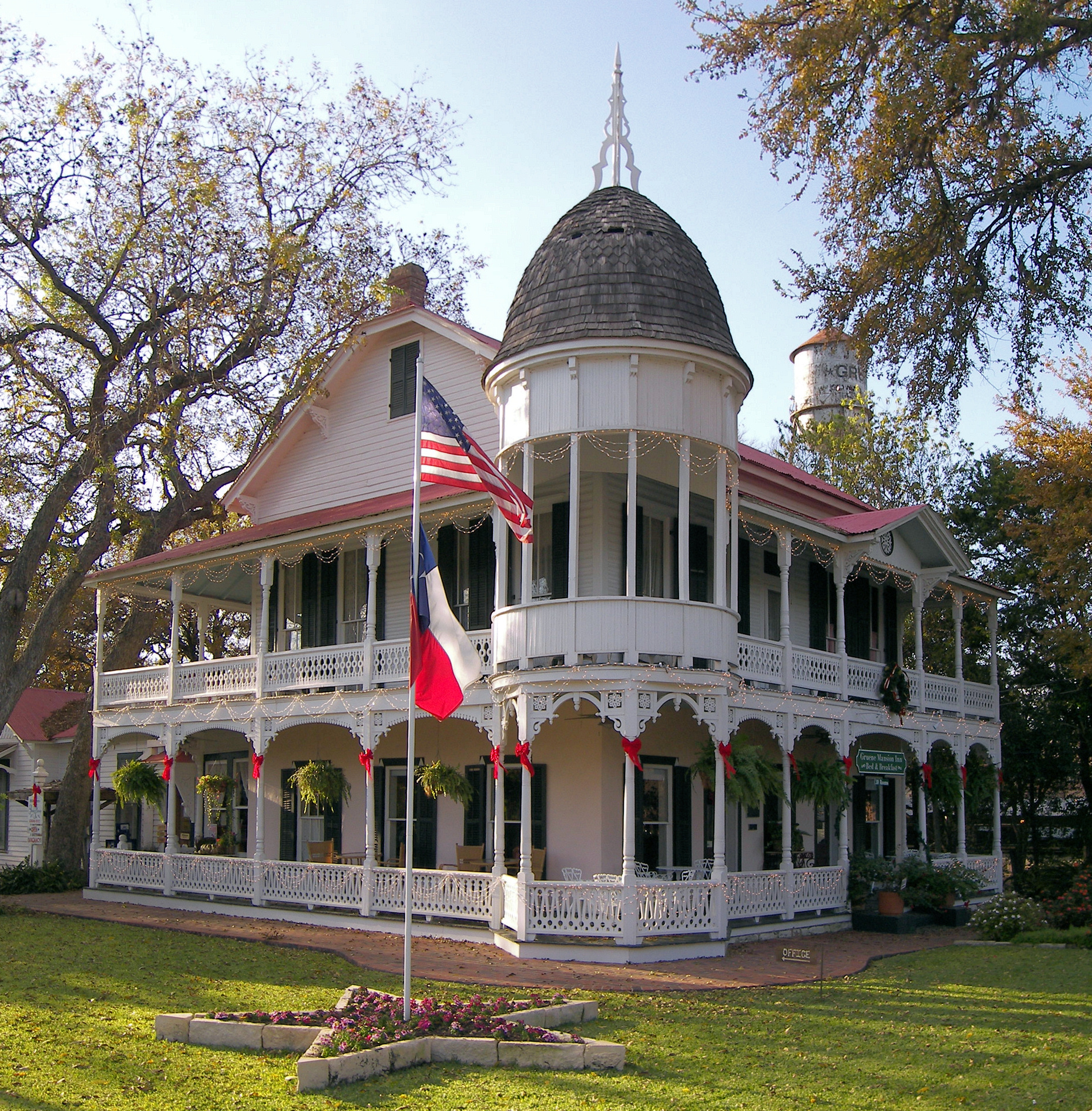 The Gruene Family Home located in Gruene, Texas, United States decorated for Christmas.